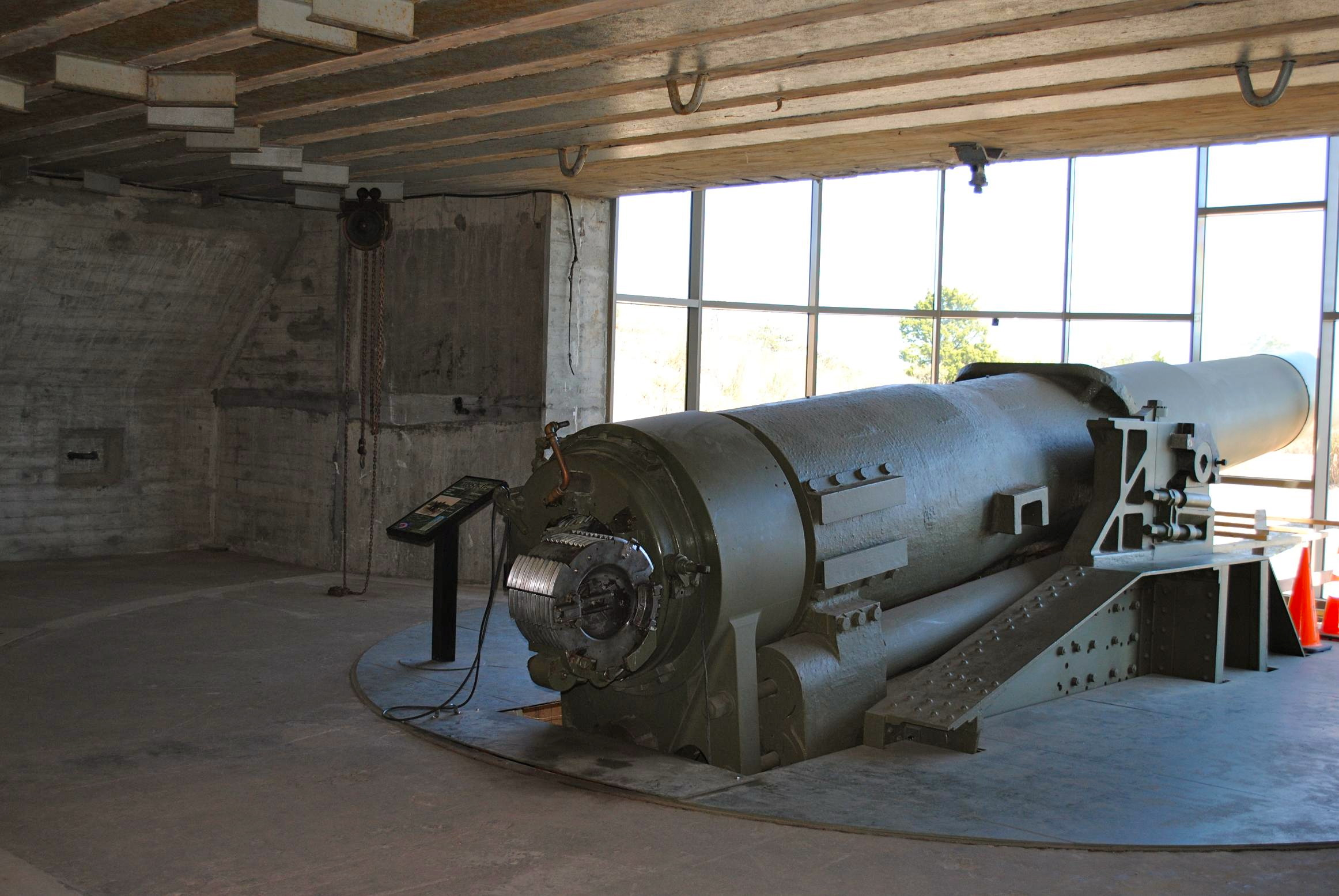 12 inch M1895 M-1 gun, Fort Miles Battery 519, right rear view.